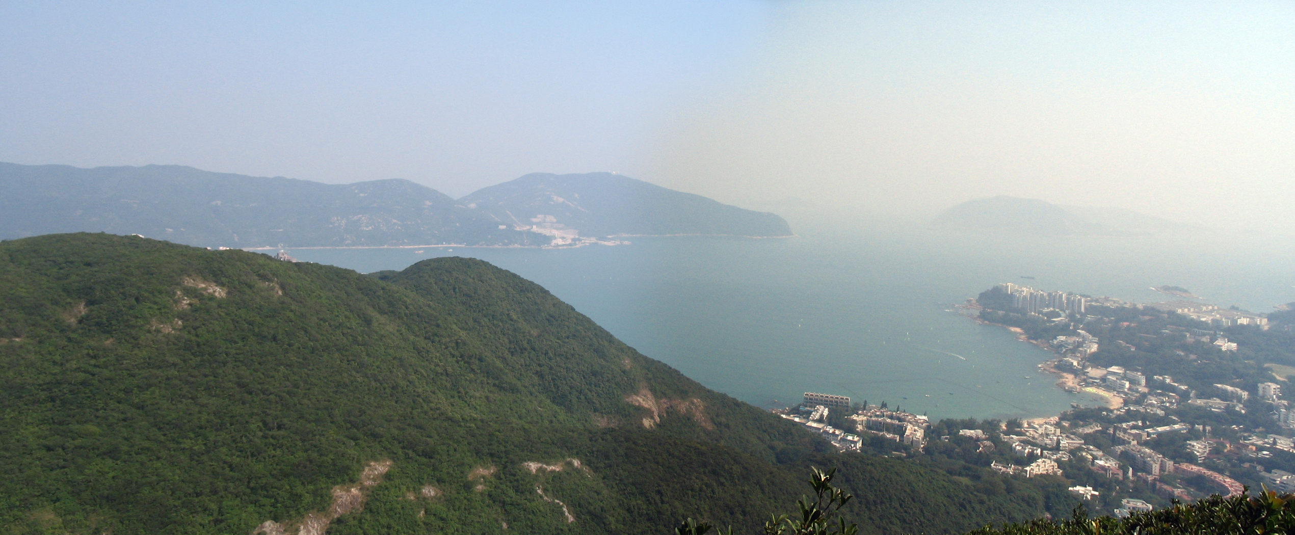 Panoramic photo of Tai Tam Bay, combined from 1632293607 and 1633179774